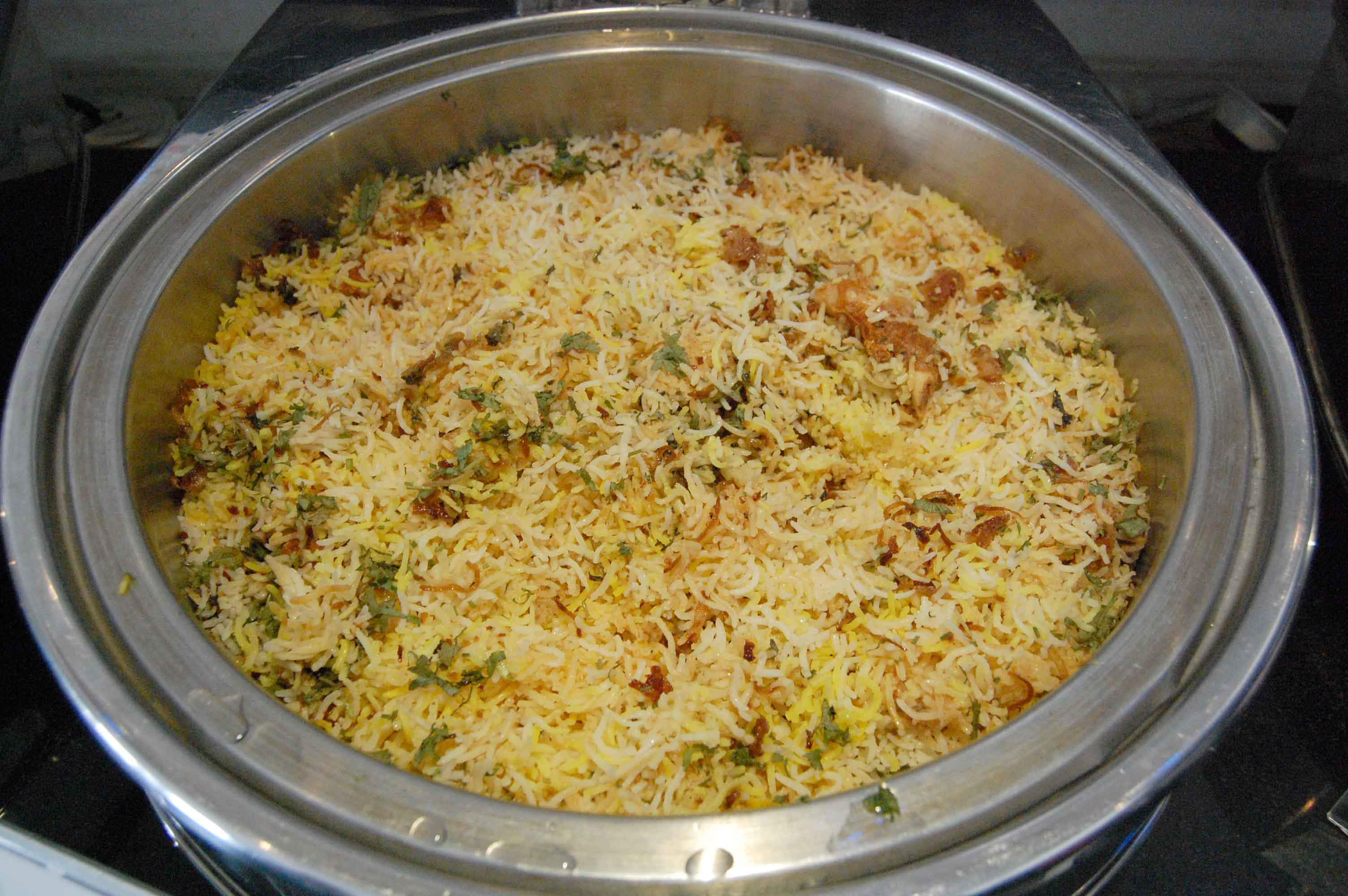 Its Navaratan Biryani famous in Hyderabad the capital of Telangana State in India...makes with mutton, chikan and fish .....too tasty